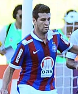 2012-09-02_Campeonato Brasileiro 2012_Série A_Bahia 1 x 0 São Paulo_Estádio Roberto Santos_PItuaçu